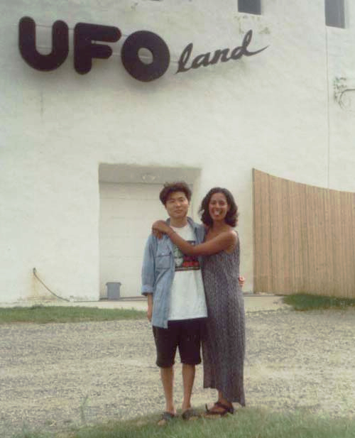 Image Specific: July 1998 Valcourt Quebec Canada Summer seminar at UFO Land With Francoise